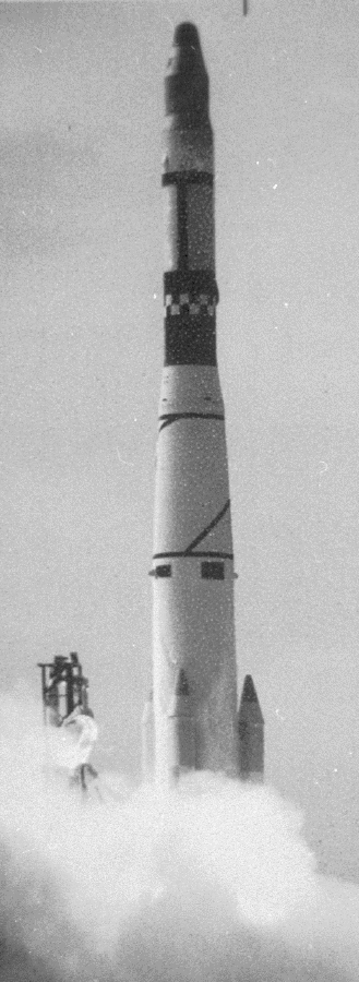 Launch of Corona 65 spy satellite on-board of Thor SLV-2A Agena D launch vehicle